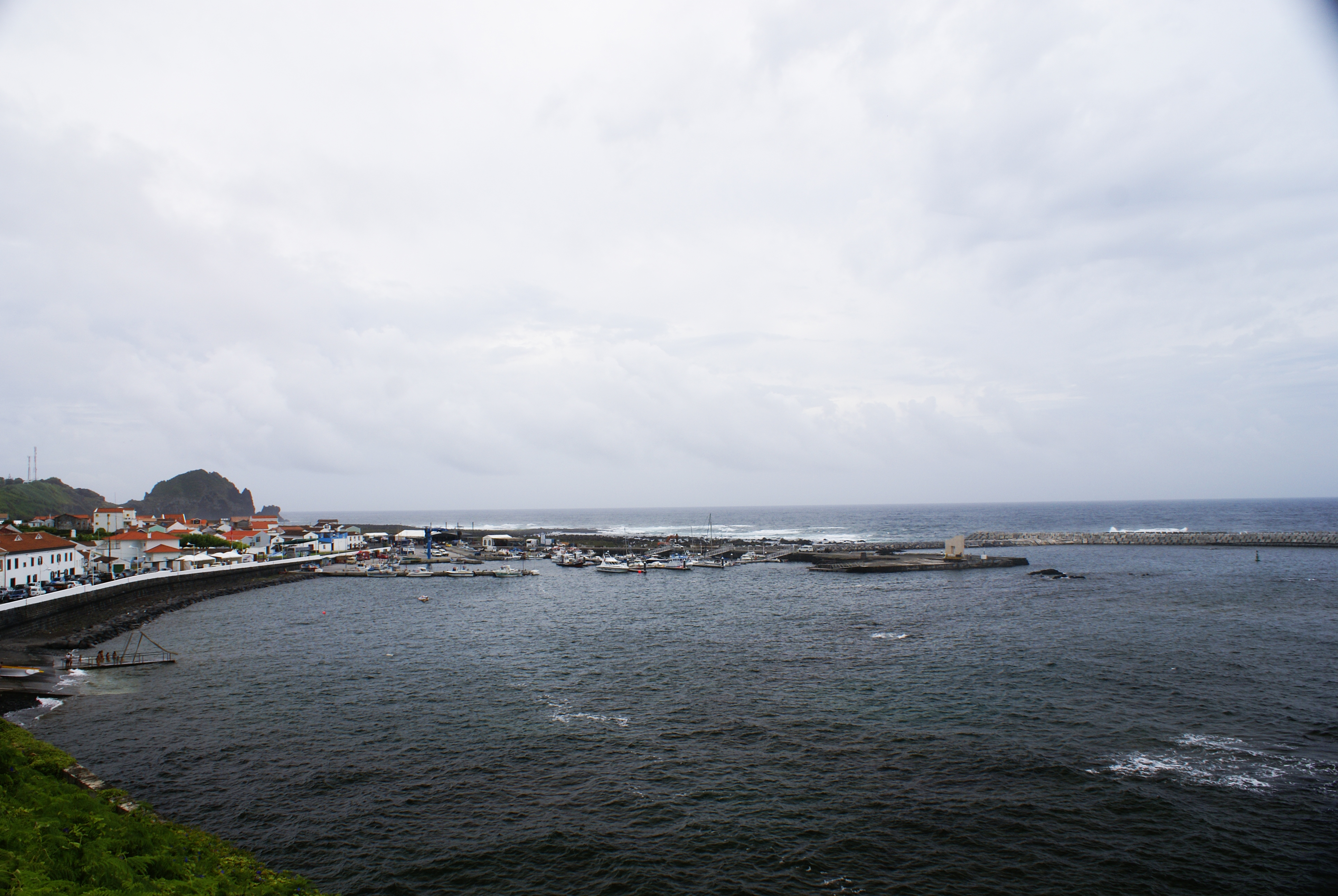 Lajes do Pico, vista parcial da baía, ilha do Pico, Açores, Portugal